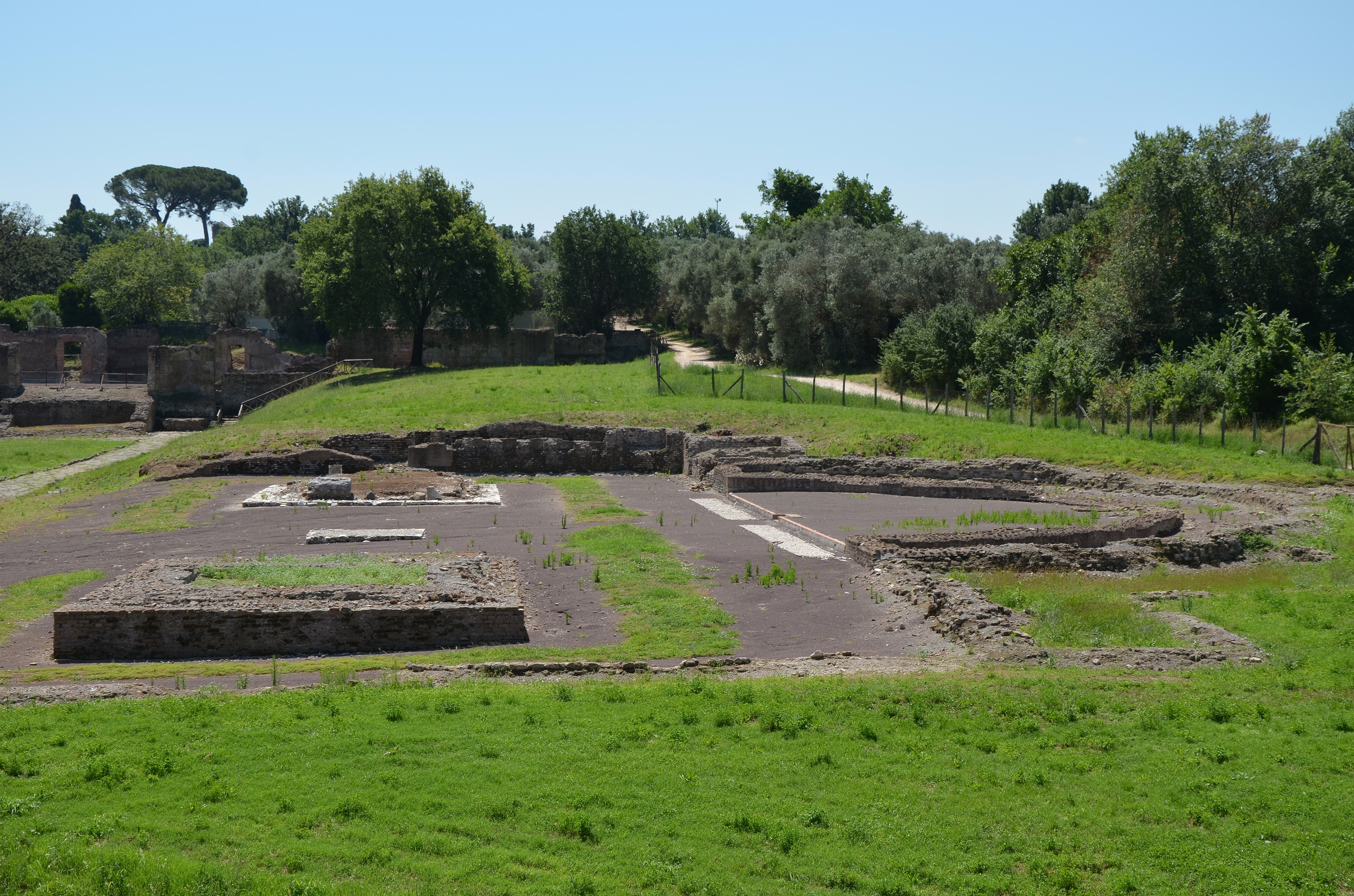 Just to the west of the access road leading to the Vestibule is a sacred precinct with two temples with white marble facing. The two temples faced one another across a plaza, in the middle of which is a base that probably supported an obelisk. Delimiting the precinct on the west was a colonnaded hemicycle with a central room. Date palms were planted in the open areas. A number of pieces of Egyptianizing sculpture were found here during the recent excavations. Other statues, found earlier in the general area, probably came from here as well, including the Antinous-Osiris (now in the Vatican Gregorian Egyptian Museum; inv. 22795) as well as the Harpocrates (Capitoline Museums, inv. MC646). The excavators, Z. Mari and S. Sgalambro, think the sanctuary was dedicated to Antinous, Hadrian's younger friend who died by drowning in the Nile in 130 CE. They speculate that the obelisk dedicated to Antinous, which now stands on the Pincian Hill in Rome, was originally erected on the base in the middle of the plaza; they also restore the two Egyptianizing telamones found nearby (Vatican Museums, inv. 196, 197) to the porch in front of room 7 (Z. Mari and S. Sgalambro, "Antinoeion," AJA 111 [2007] 87, 98-99). The structure dates to ca. 134 CE. Source